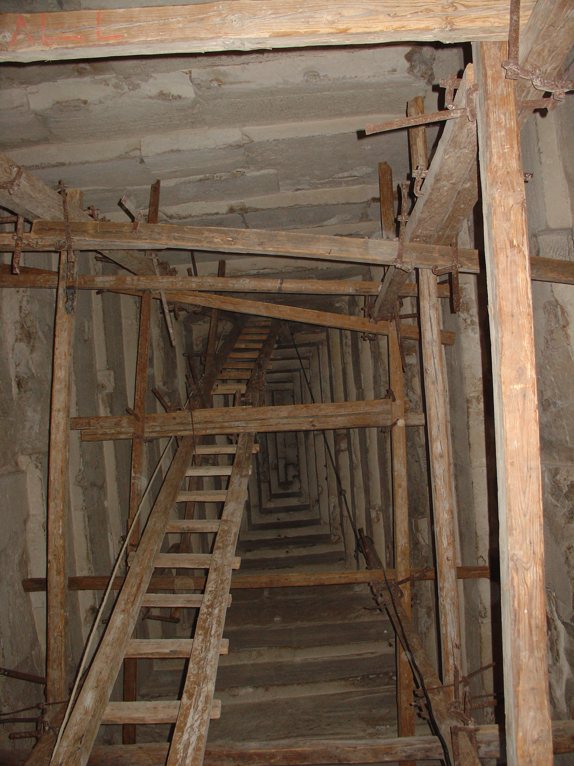 Stairways inside Snofru's Bent Pyramid